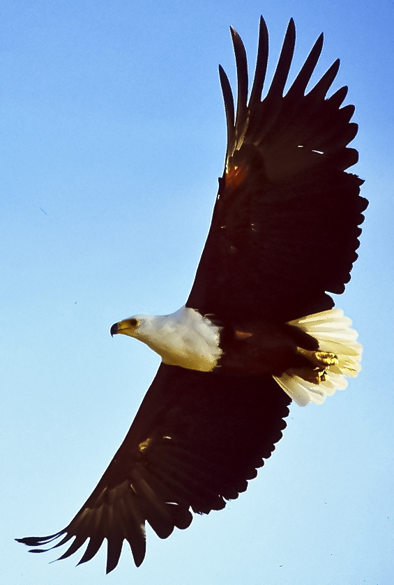 cropped version of Airborn African fish eagle, Lake Baringo, Kenya